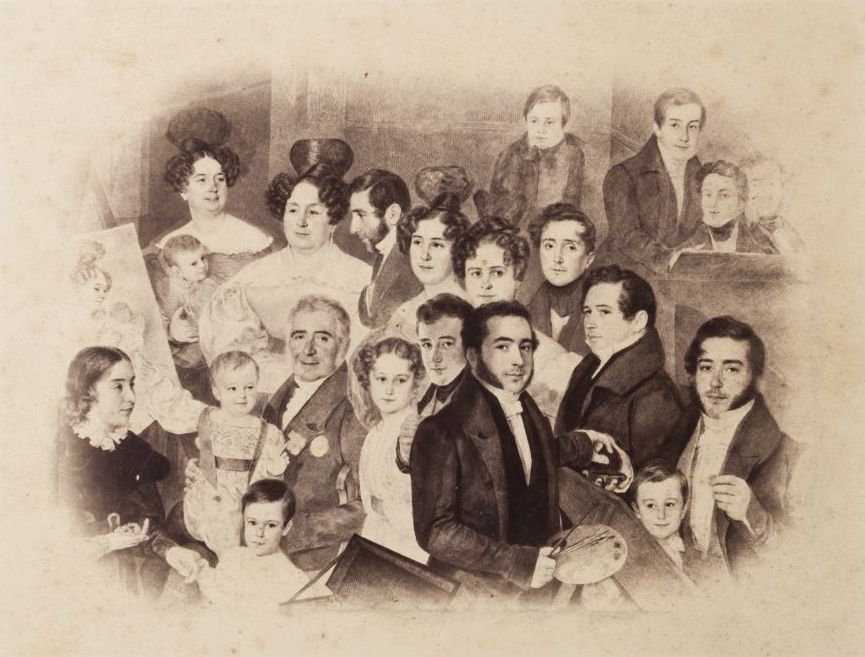 Engraving depicting the Pinto Basto family, founders of the Vista Alegre China Factory. 19th-century.